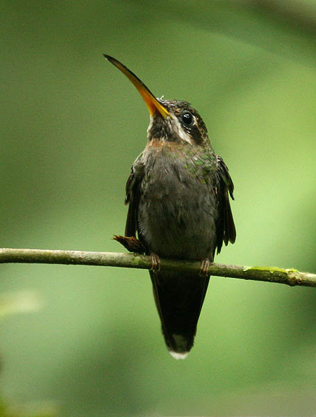 A Band-tailed Barbthroat (Threnetes ruckeri) at Rio Silanche (PVM), NW Ecuador 3/9/2007